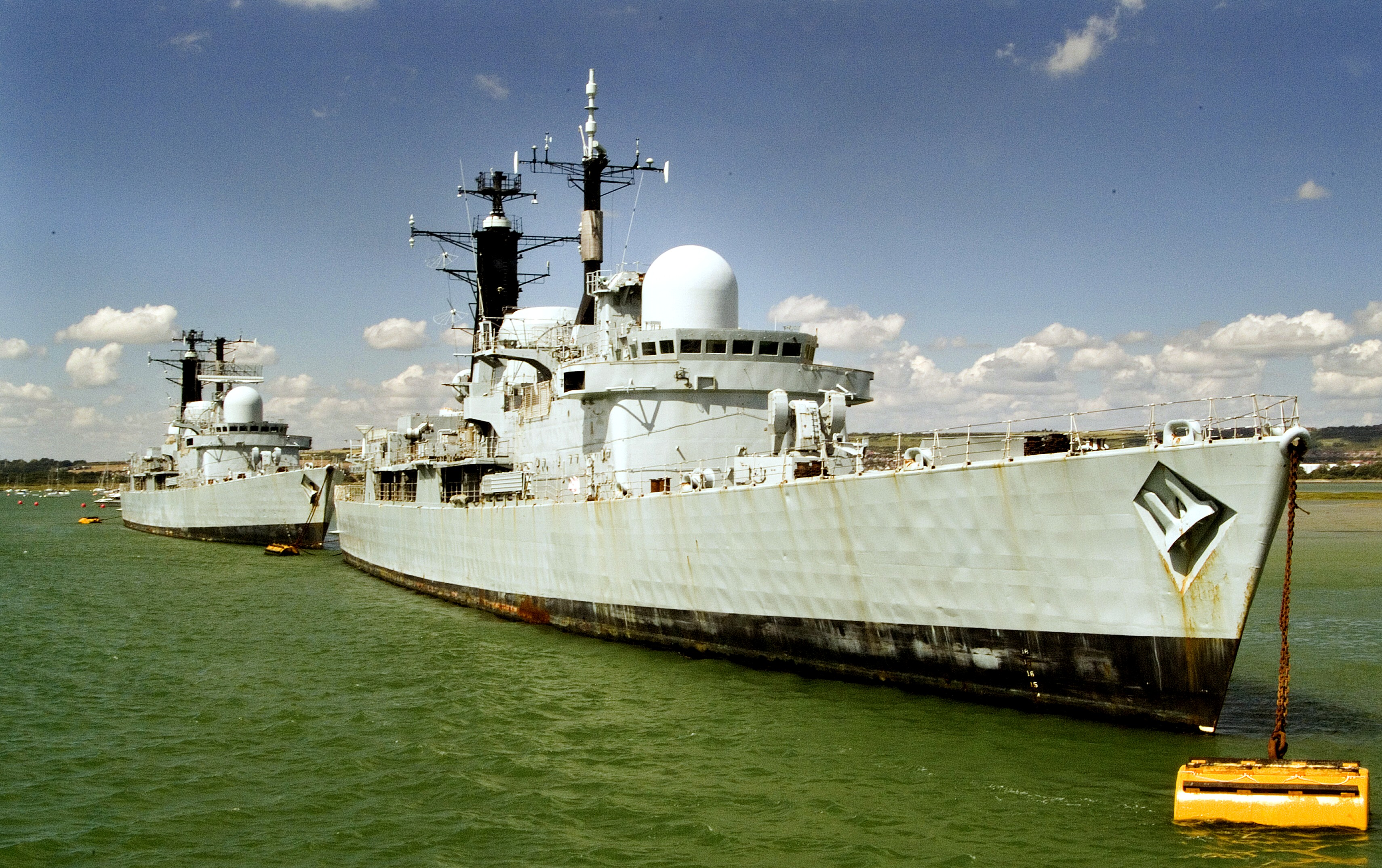 HMS Newcasle with HMS Cardiff astern. Fareham Creek Portsmouth 2007